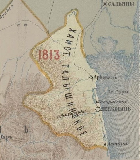 Khanate of Talysh in the Map of Caucasus with the borders 1801-1813